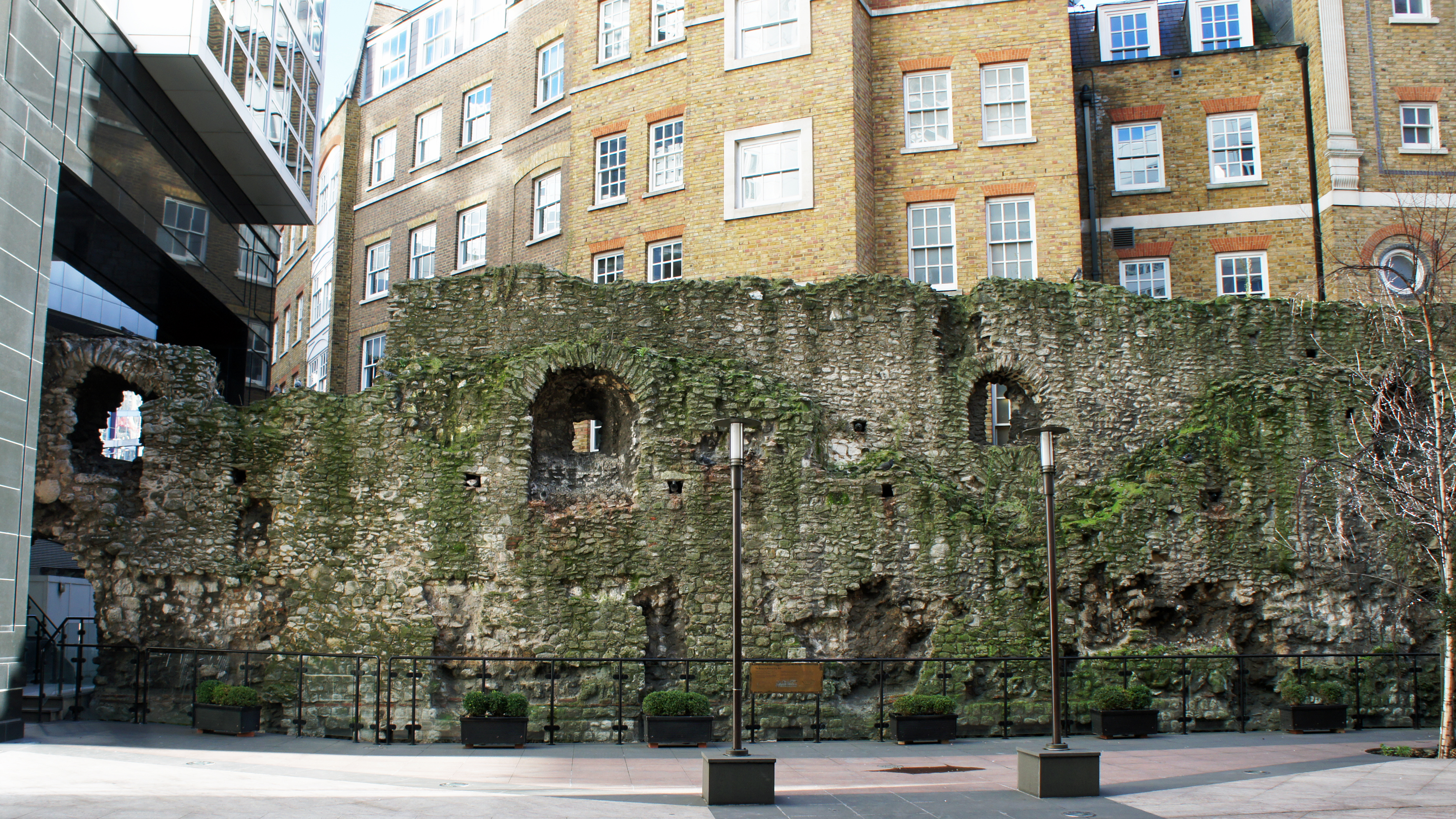 Surviving section of the city of London Roman wall at night near Tower Hill. This section of the wall shows both the Roman and Medieval parts of the wall.